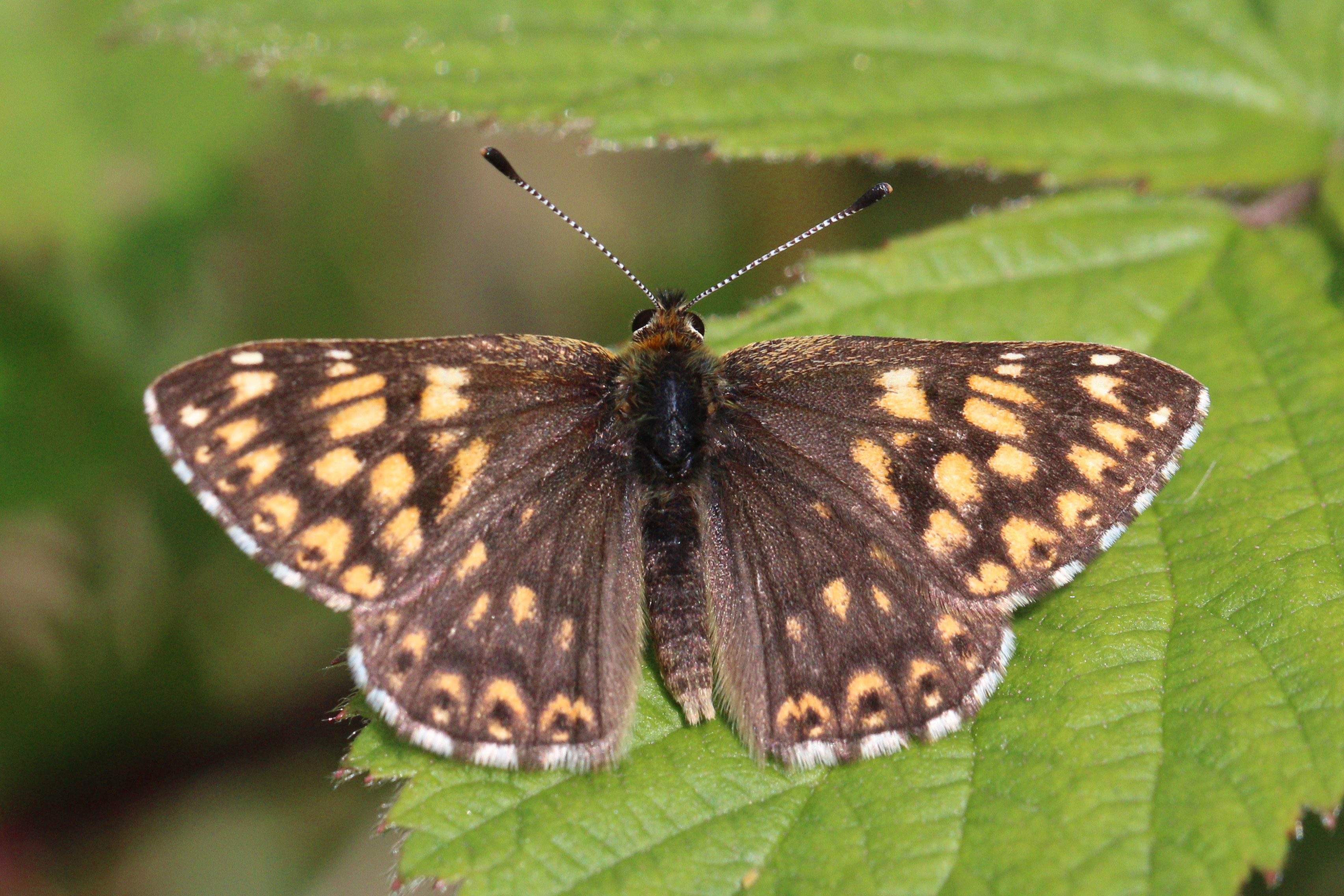 Duke of Burgundy (Hamearis lucina) male, Ivinghoe Beacon, Buckinghamshire